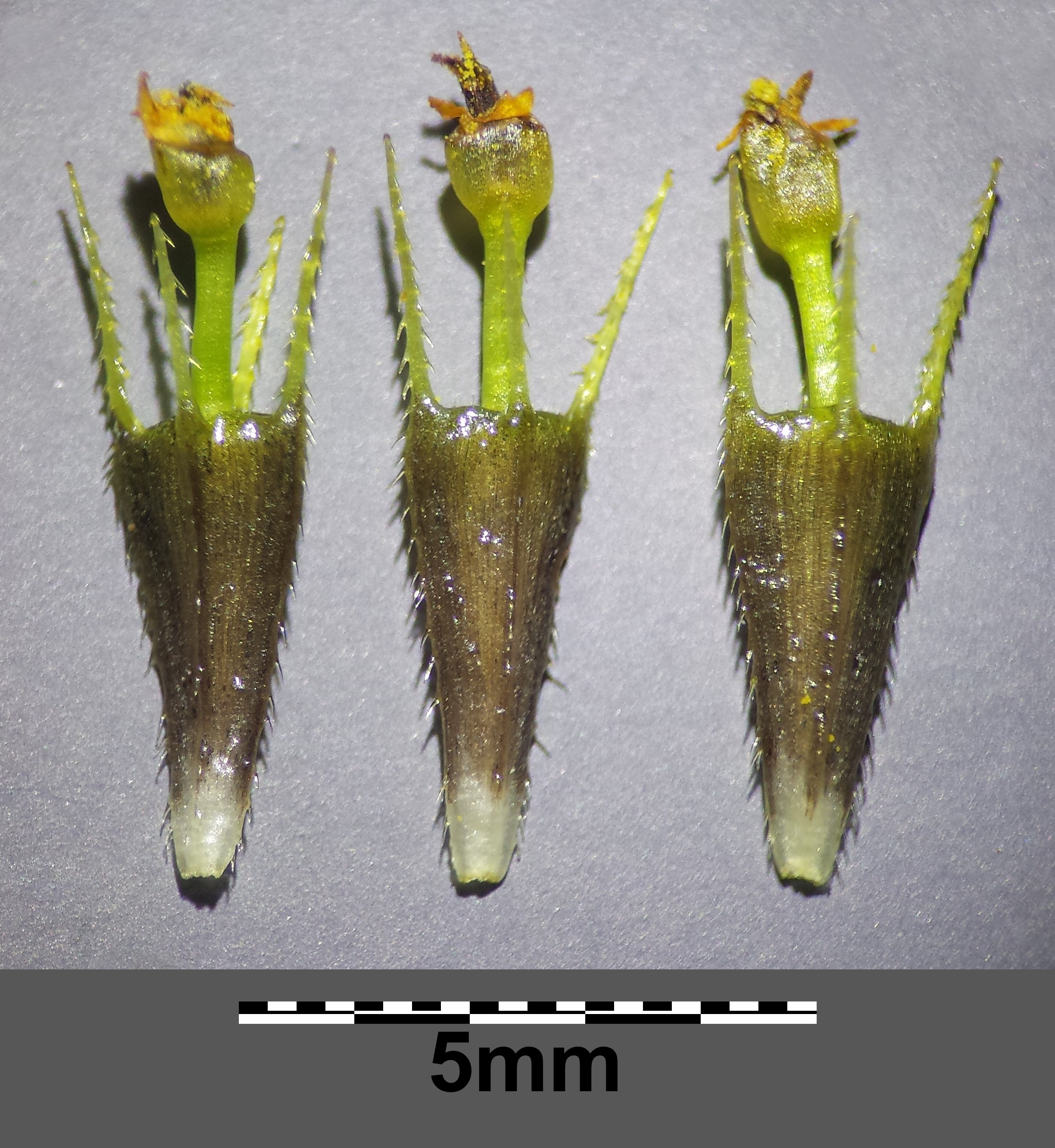 Achenes Taxonym: Bidens cernua ss Fischer et al. EfÖLS 2008 ISBN 978-3-85474-187-9 Location: Žárský rybník, Jihočeský kraj, Czech Republic - ca. 500 m a.s.l. Habitat: shore of a pond